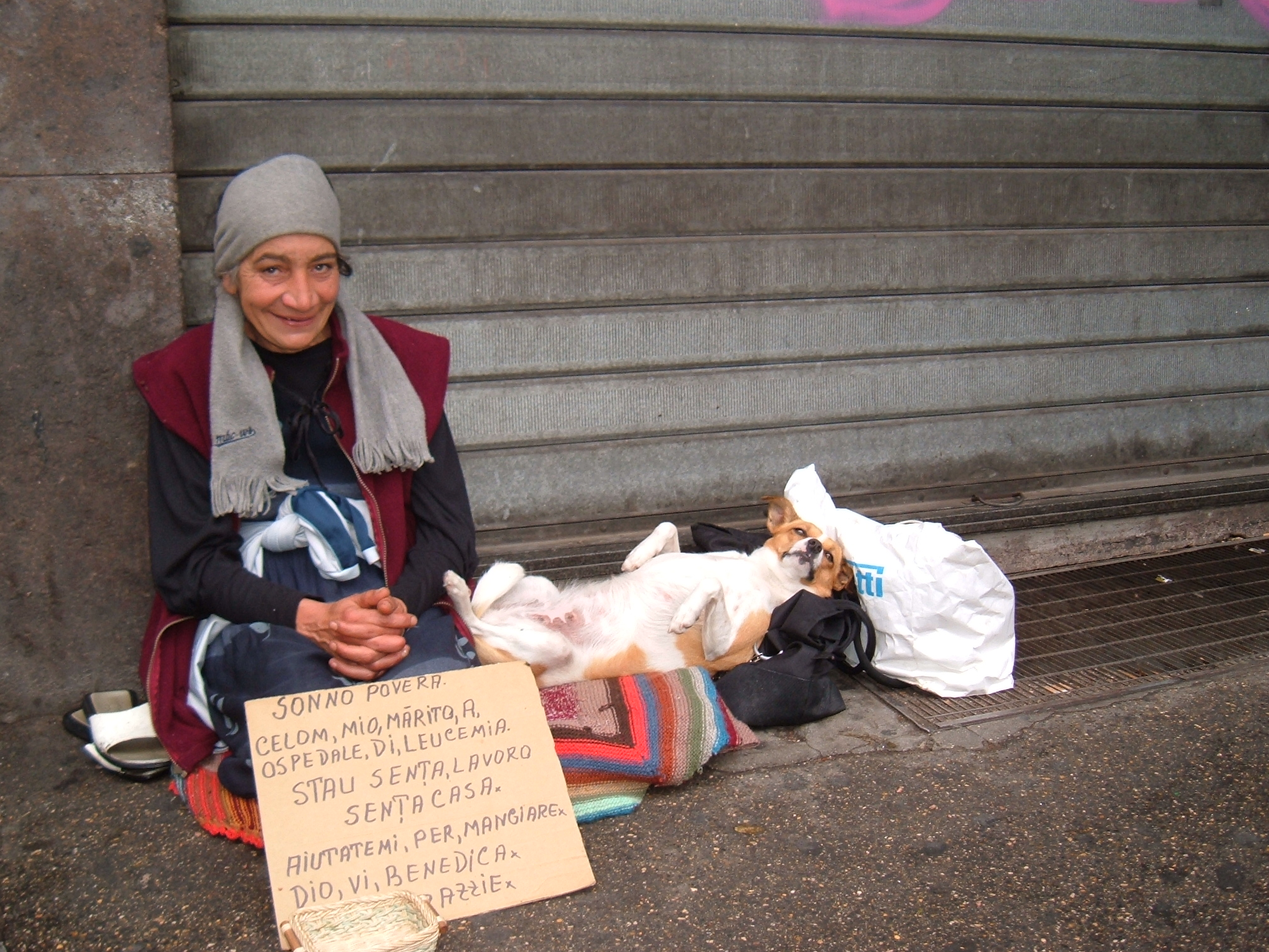 A Roma woman with her dog in a street of Rome.